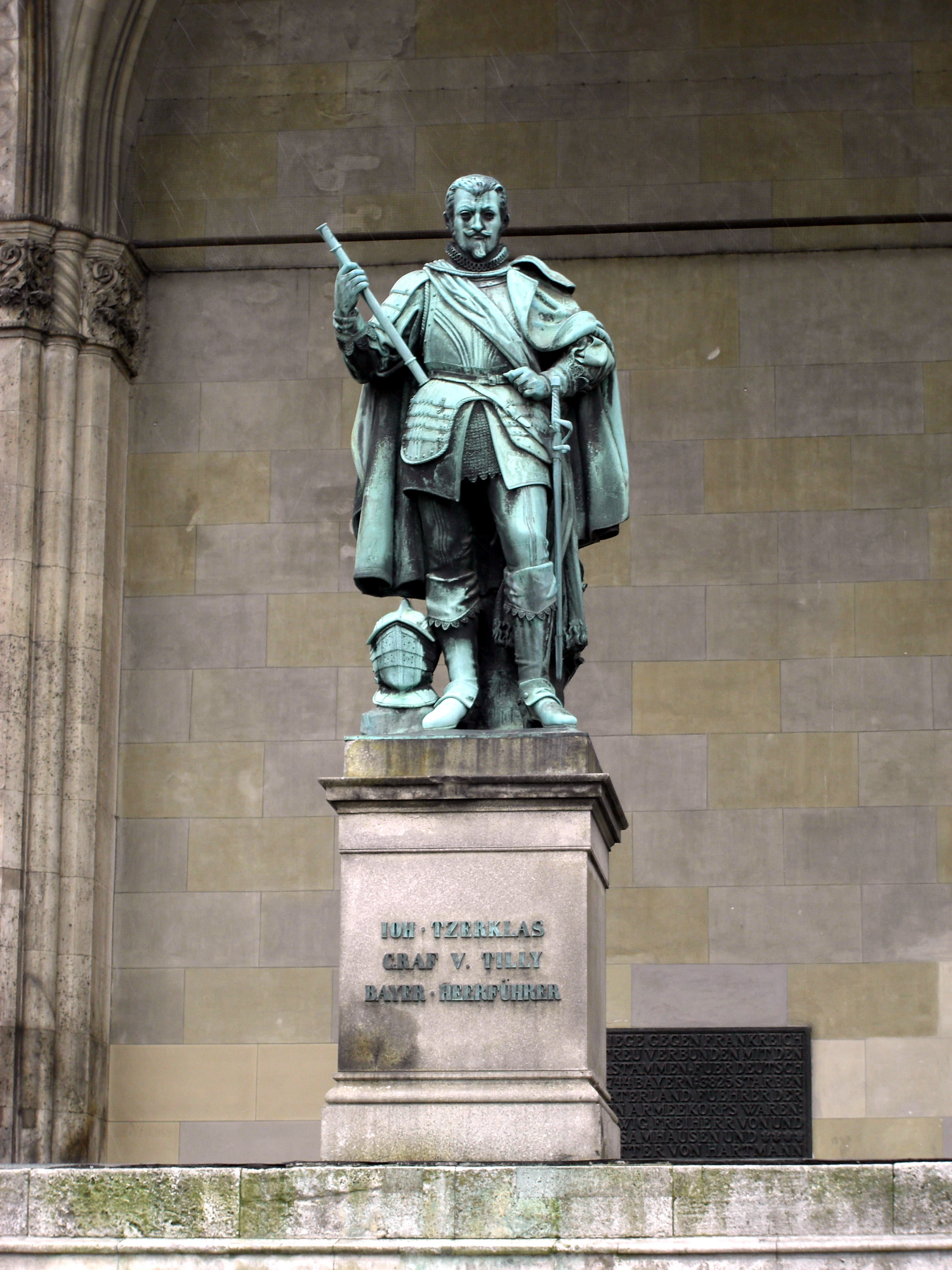 Johann Tserclaes, Count of Tilly, statue, Feldherrnhalle, Munich, Bavaria, Germany.